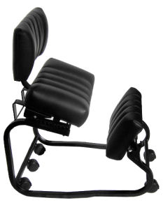 Author Gregory J Usher. Description Kneelsit Balance Chair GFDL self-made Date 14 May 2005 created 4. Dec. 2004 Author Gregory J. Usher (author) Permission GFDL (self made) Other versions available on request